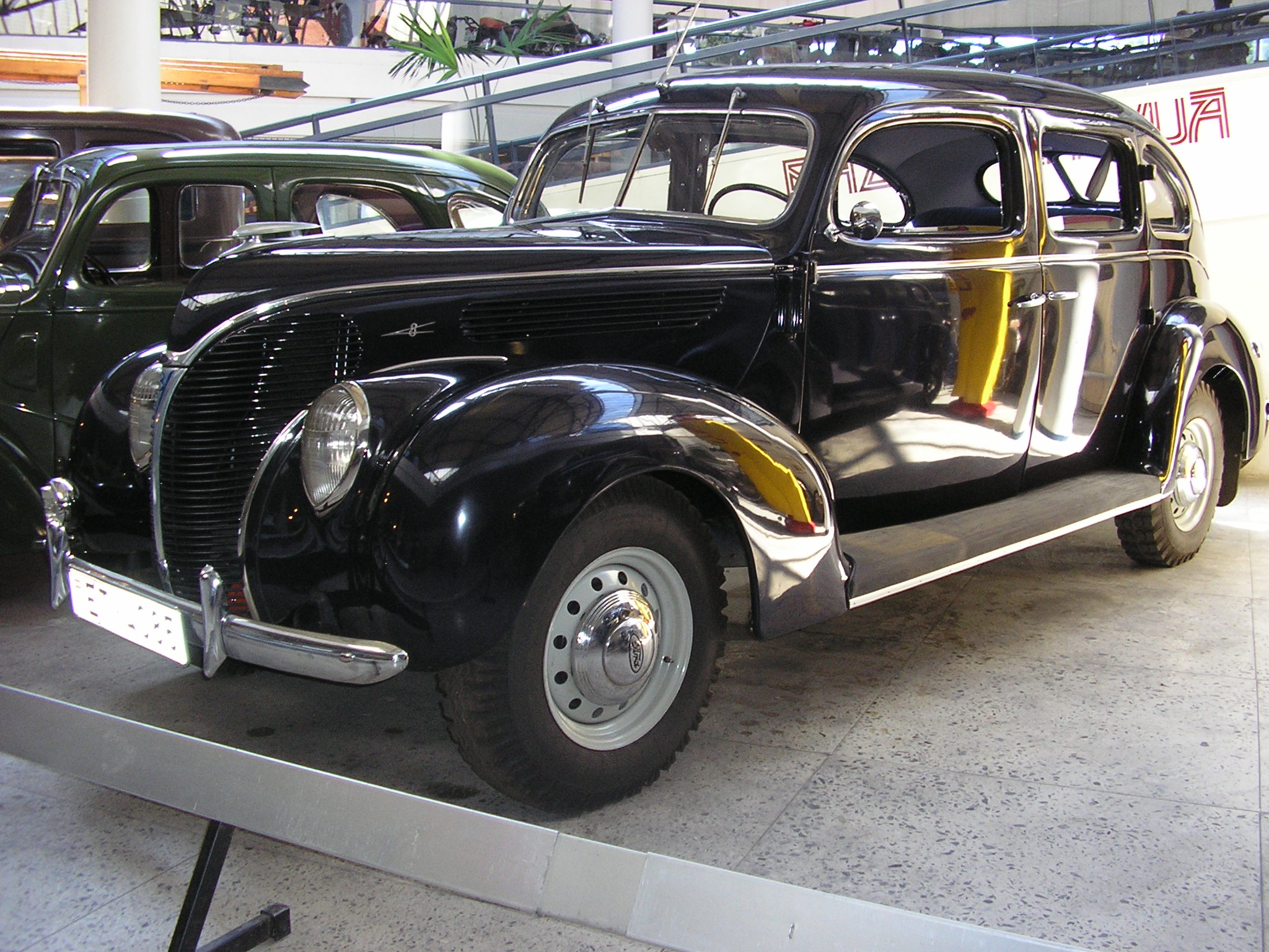 A 1938 Ford-Vairogs V8 "De Luxe" mod. 81A. The side valve V8 has a capacity of 3621 cc and gives 85 hp and a top speed of 130 km/h. The total weight of the car is 1493 kg.